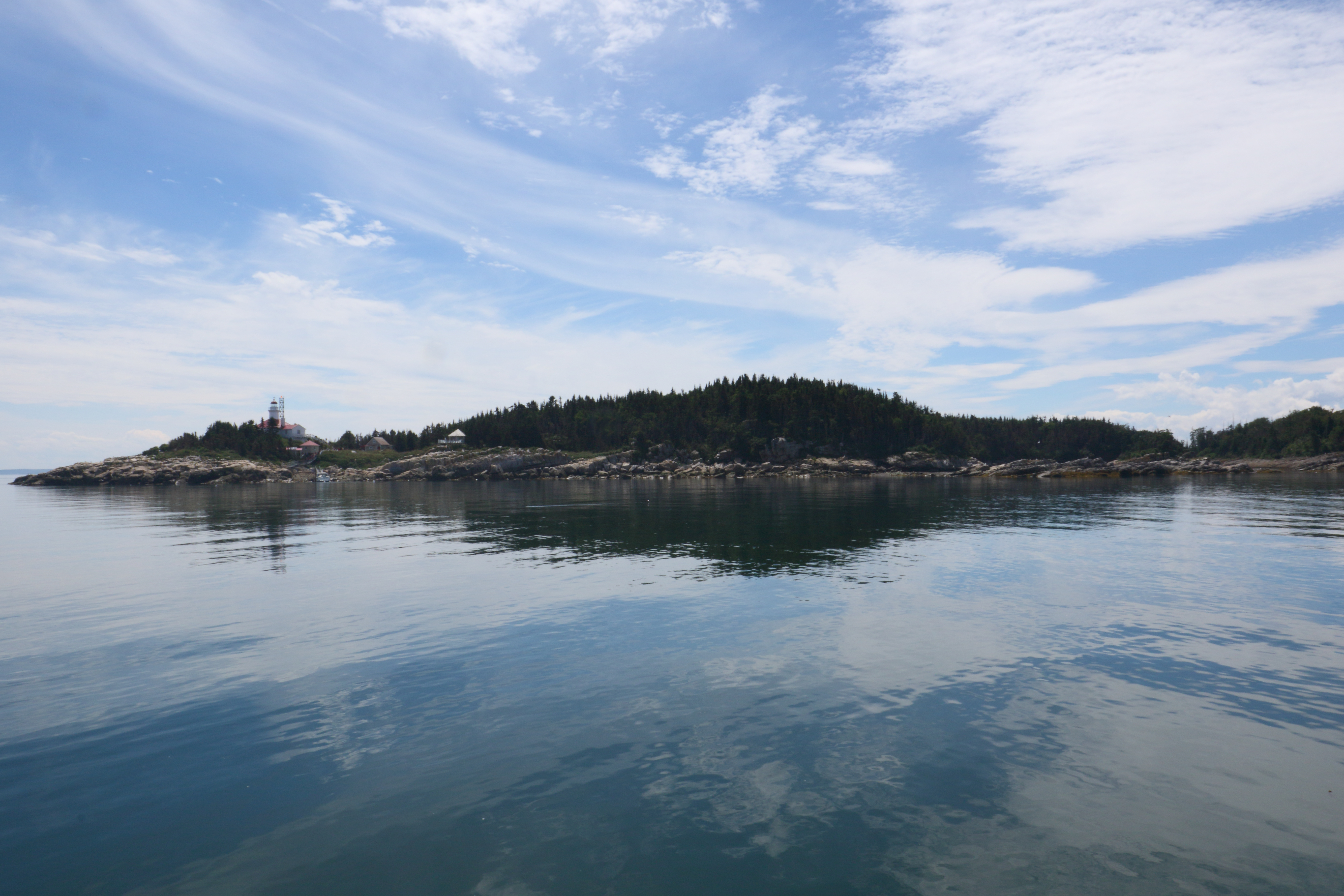 Pot à l'Eau-de-Vie islands (Brandypot islands) on Saint Lawrence River, Quebec, Canada